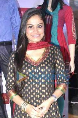 Toral Rasputra "unveil Max's new collection"